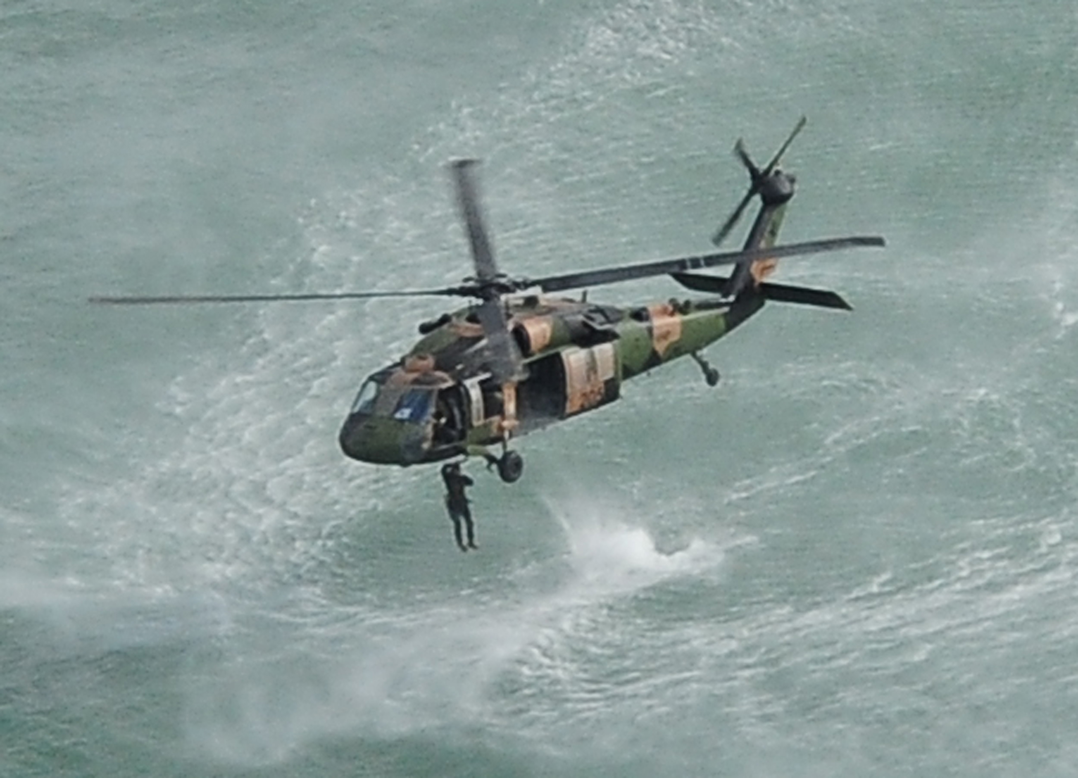 A 1st Commando Regiment soldier casts out of an Australian Regular Army Black Hawk helicopter from 171st Aviation Squadron at Freshwater Beach, Shoalwater Bay, Queensland.